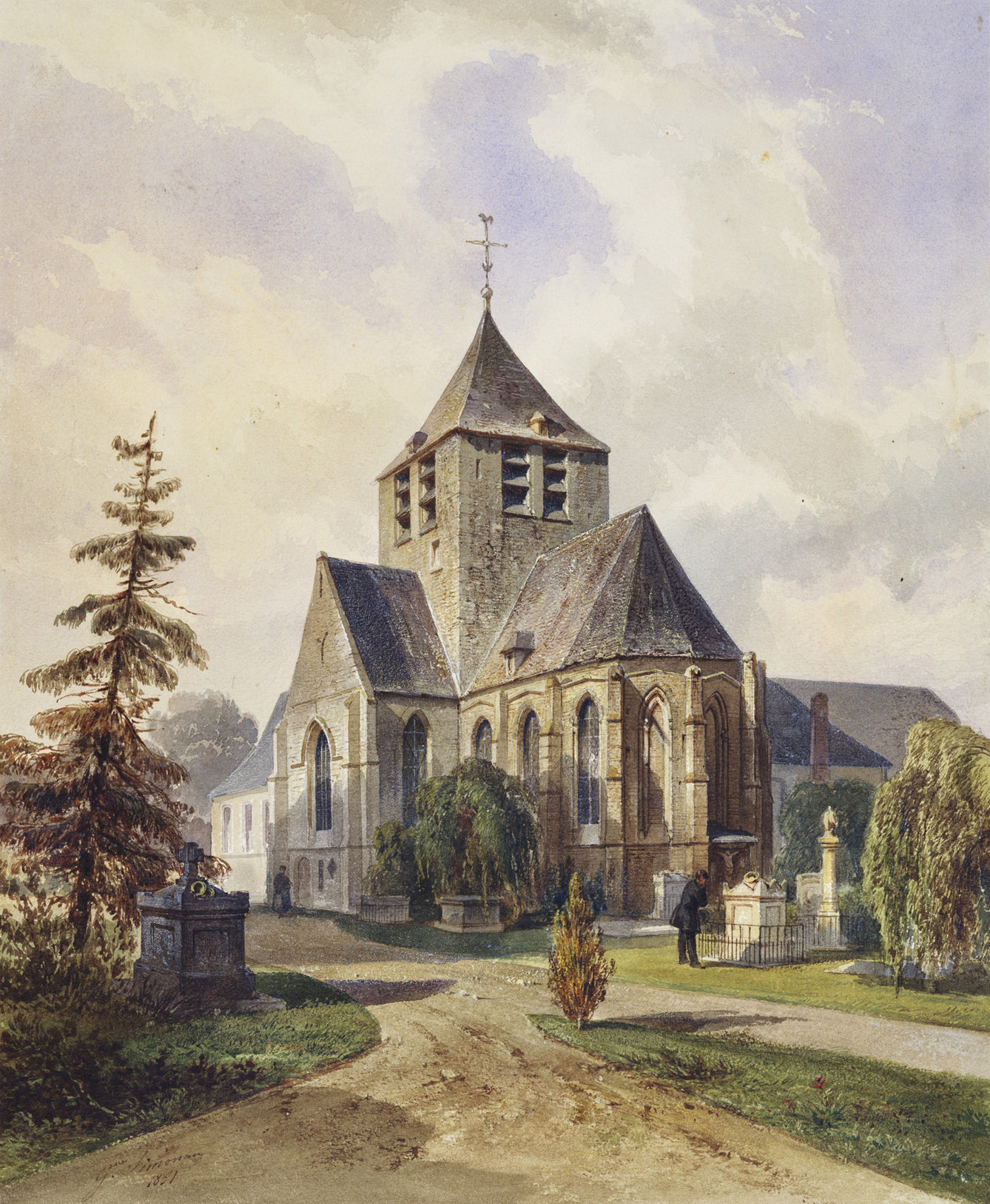 Aquarel of the church and churchyard of Notre-Dame at Laeken by Gustave Simonau